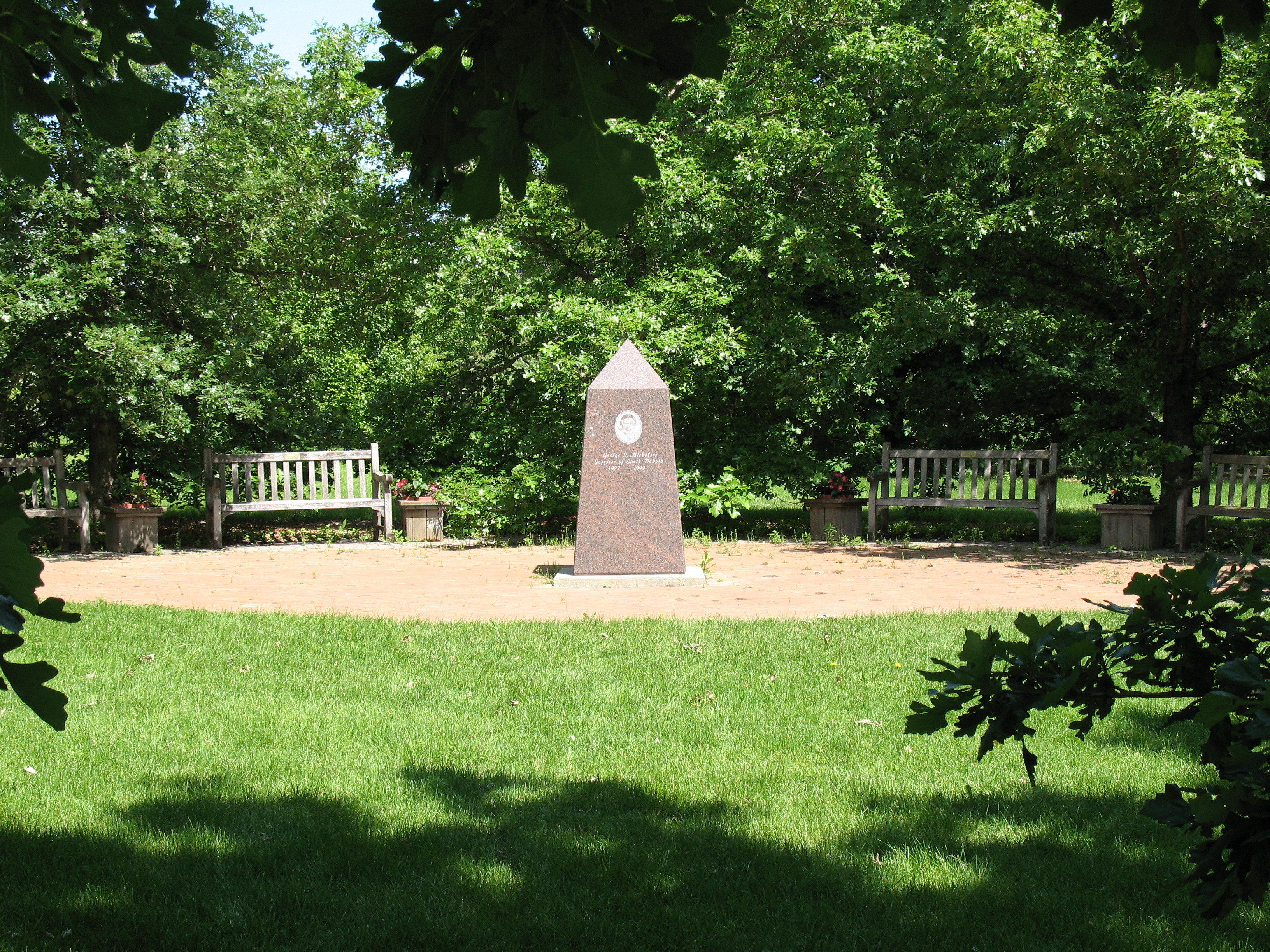 The memorial for the late George S. Mickelson, former governor of South Dakota. Located in McCrory Gardens, SDSU, Brookings, SD.